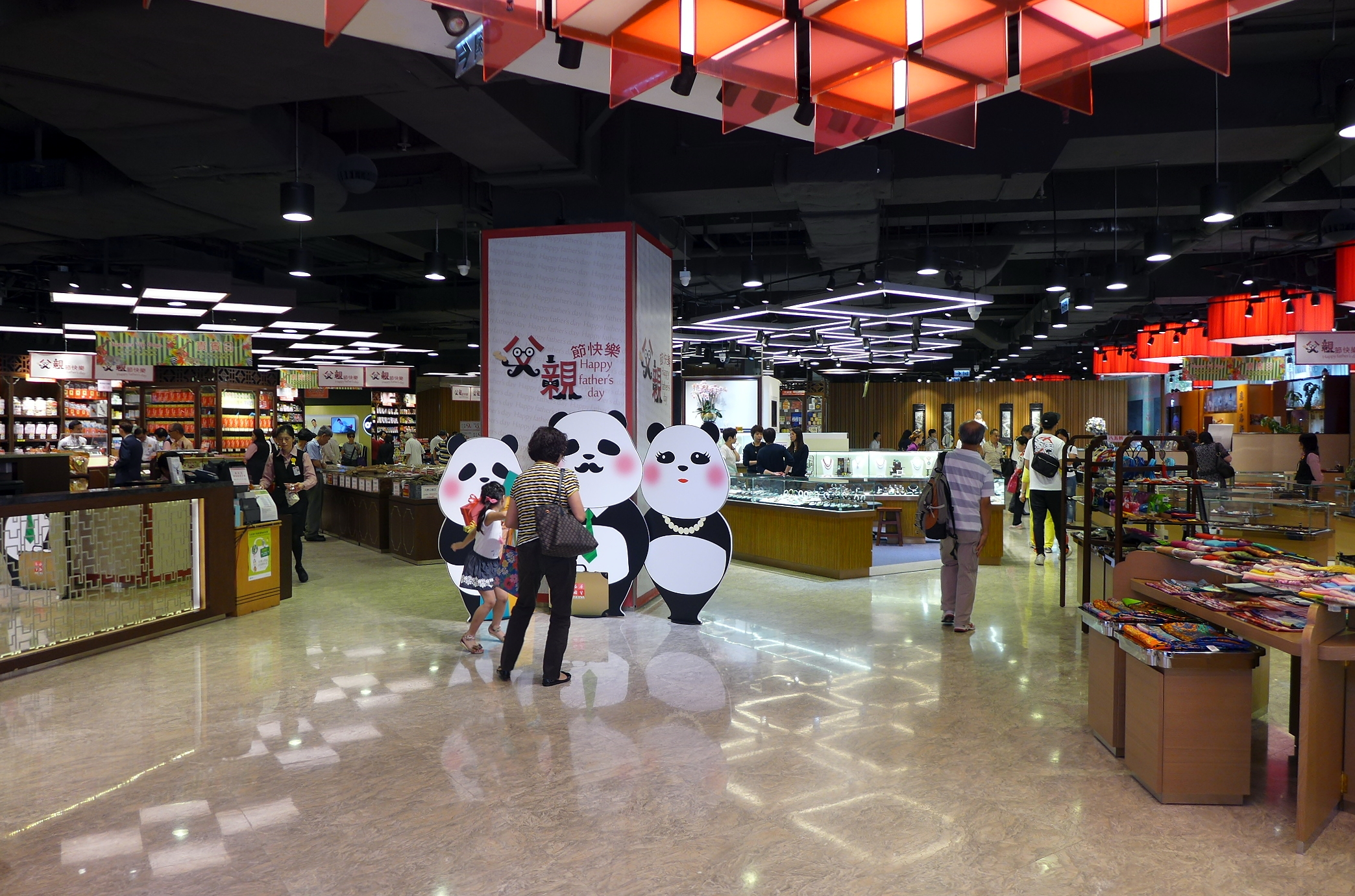 Yue Hwa Chinese Products Emporium Jordan Store